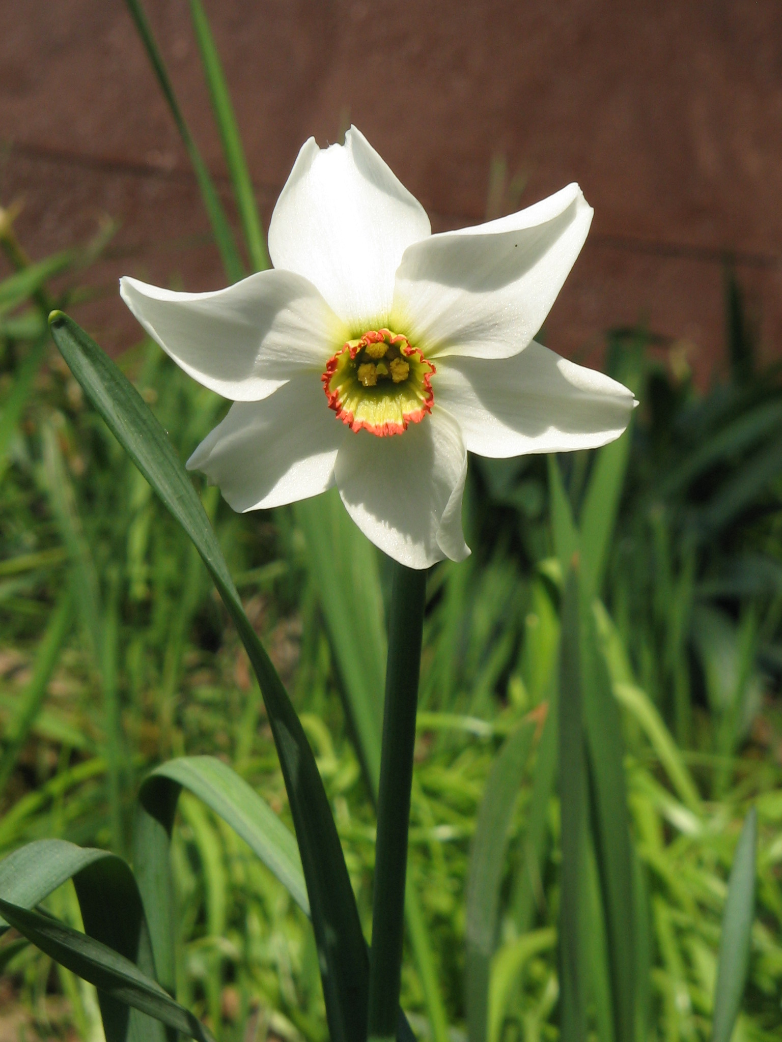 Narcissus poeticus 'Recurvus'